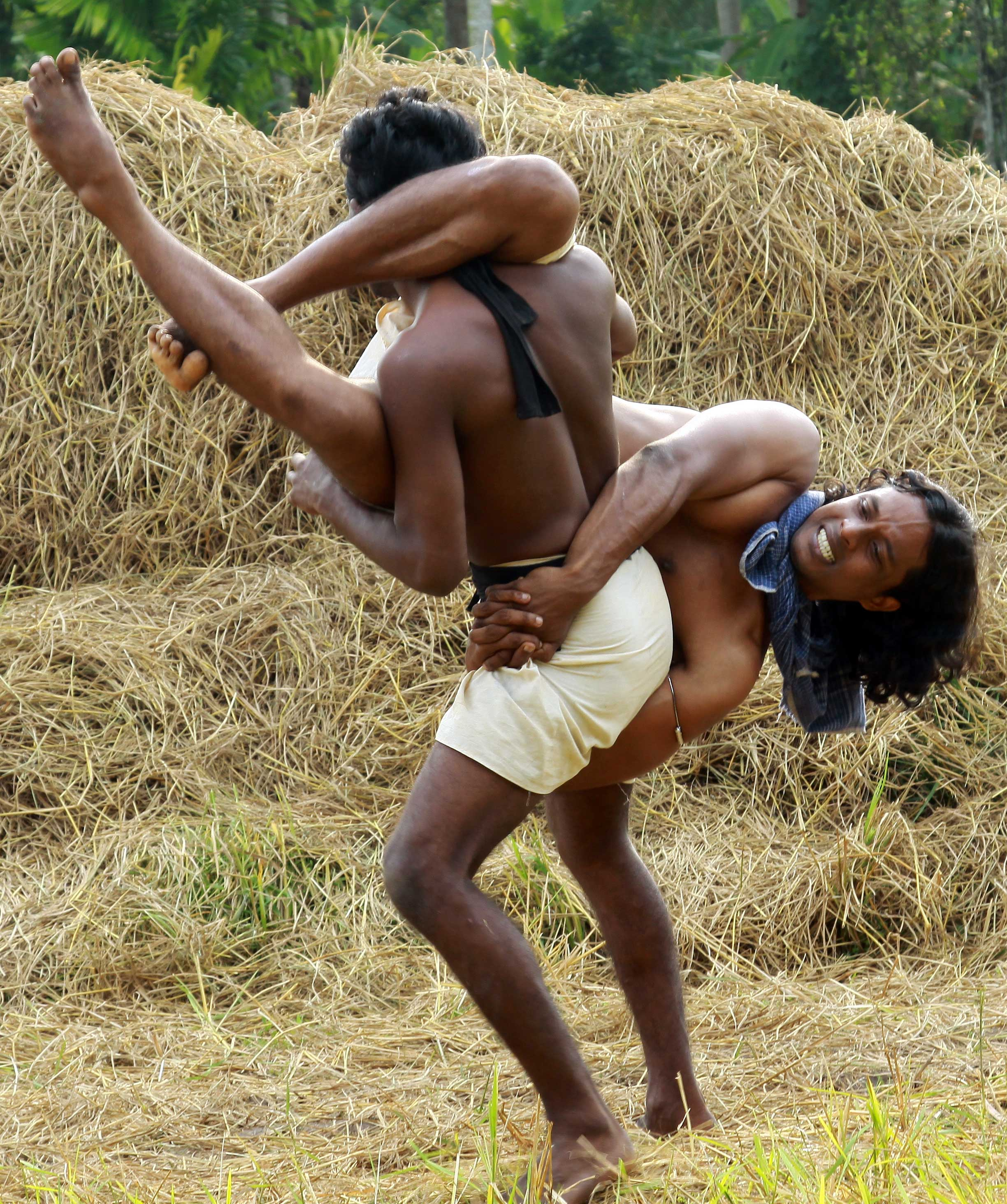 Angam or Bare hand fightingg in Angampora art